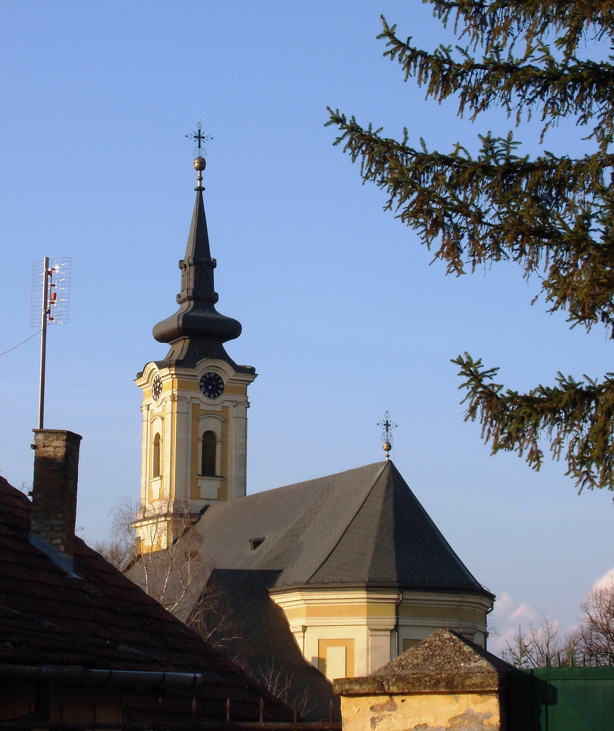 Catholic Church at Sremska Mitrovica, Serbia, Vojvodina/L'église catholique romaine de Sremska Mitrovica, Voïvodine, Serbie